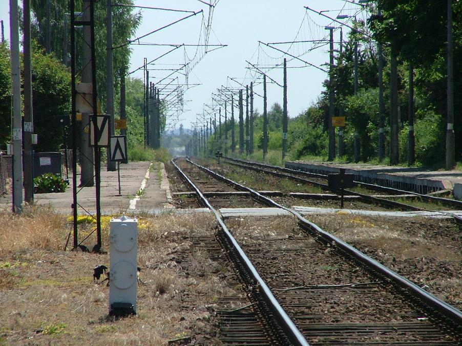 Rail Station - Poznan Strzeszyn.